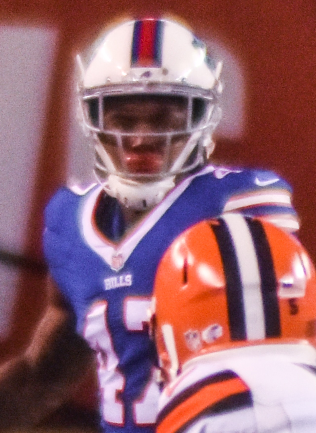 Buffalo Bills cornerback Ellis Lankster on punt return coverage during a preseason game against the Cleveland Browns at Paul Brown Stadium in Cleveland on August 20, 2015.